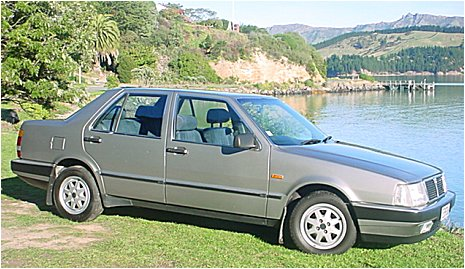 Lancia Thema taken by Ross Ferguson, used with permission. For sale (at the time of writing) at